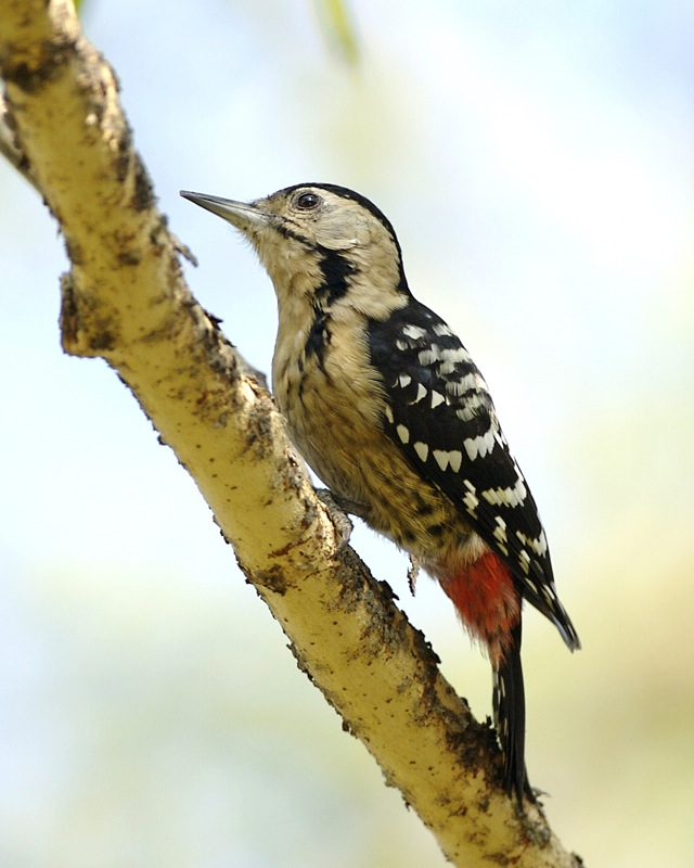 Fulvous-breasted Woodpecker Dendrocopos macei - female ssp Dendrocopos macei macei 10th. December 2007 Jahangir University campus, Dhaka, Bangladesh